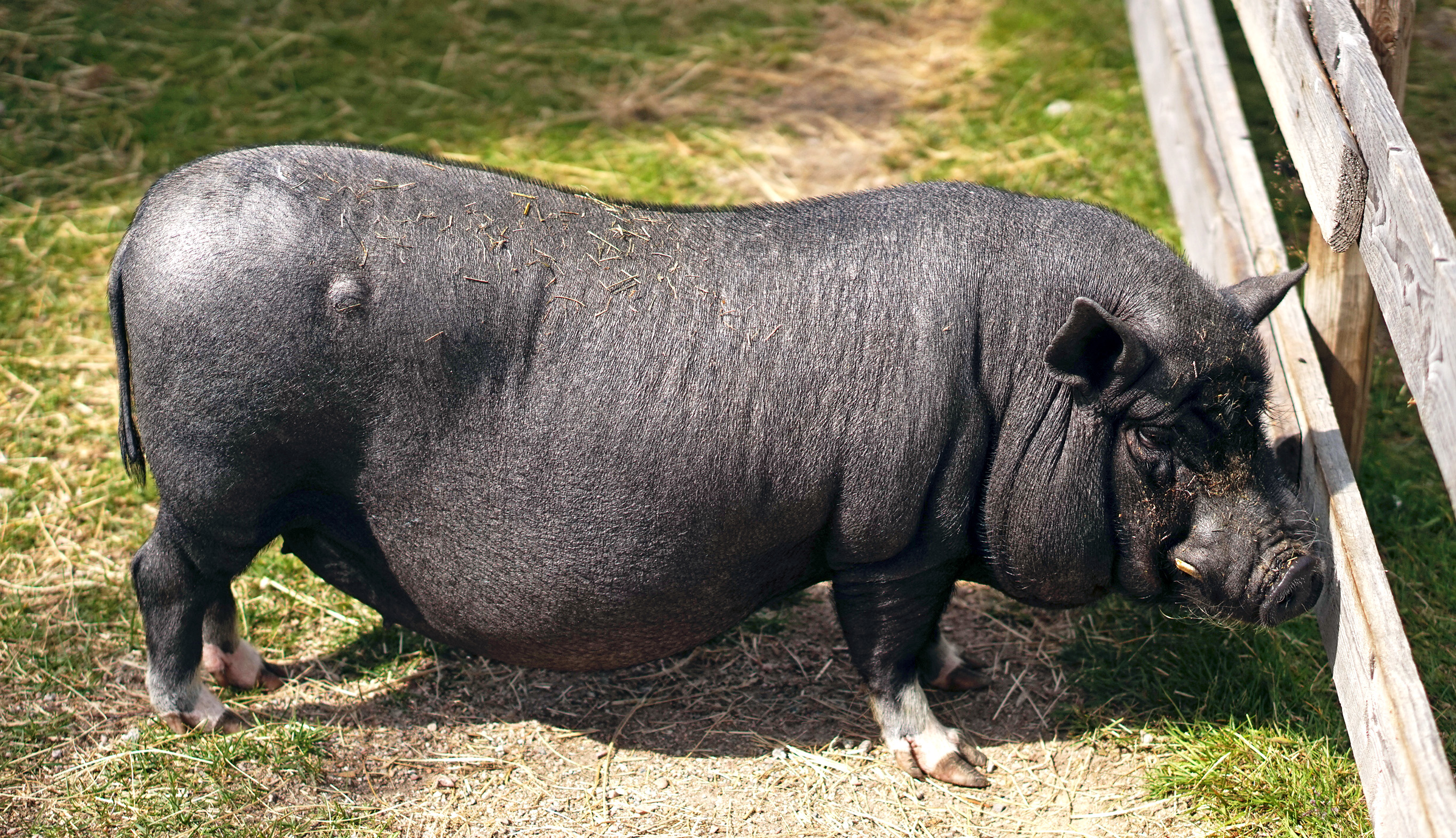 A black mini pig in Ysitien Lemmikki, Leppälahti, Jyväskylä.